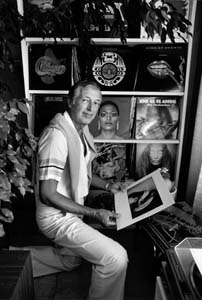 Raymond Colbert